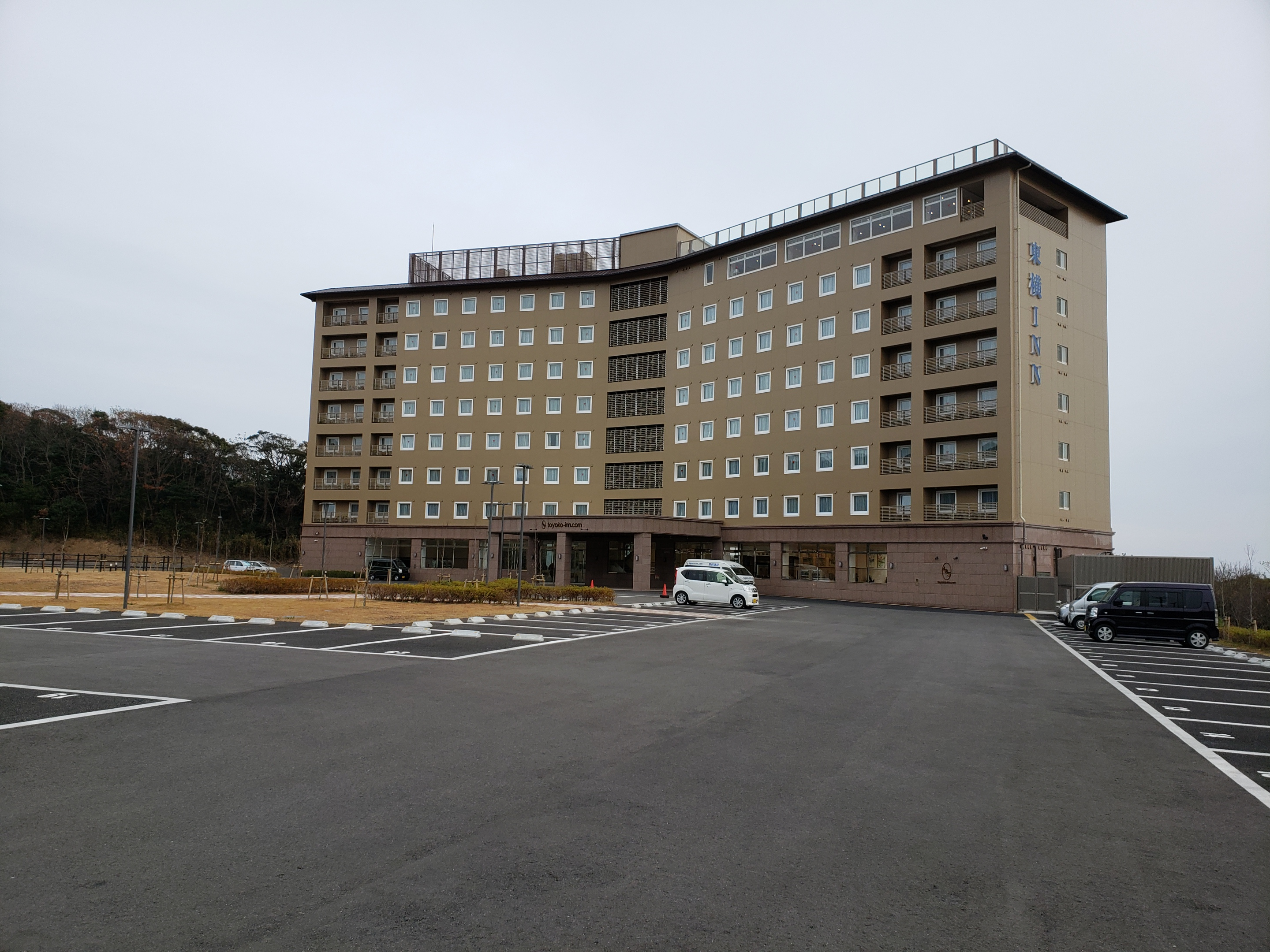 Toyoko-inn Tsushima-Hitakatsu branch.